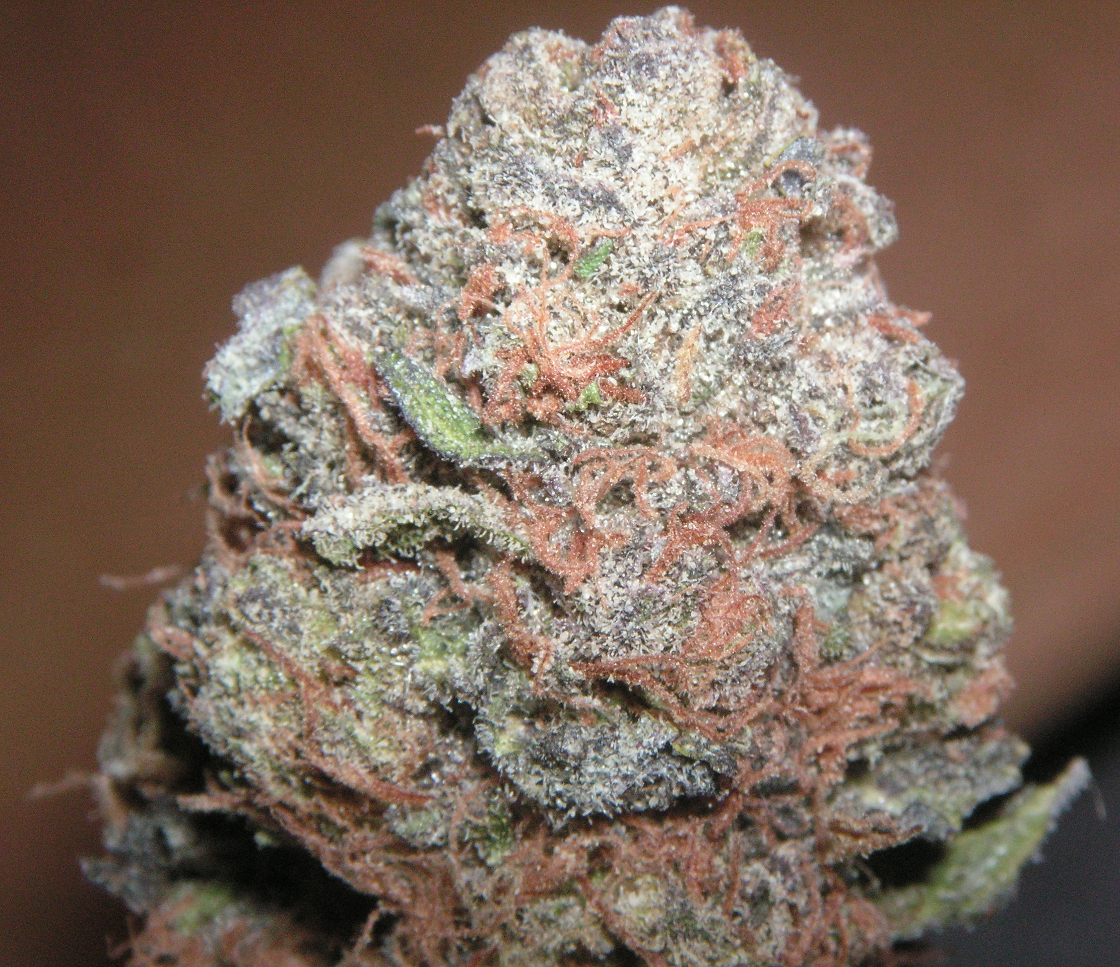 A select nugglet of Purple Kush